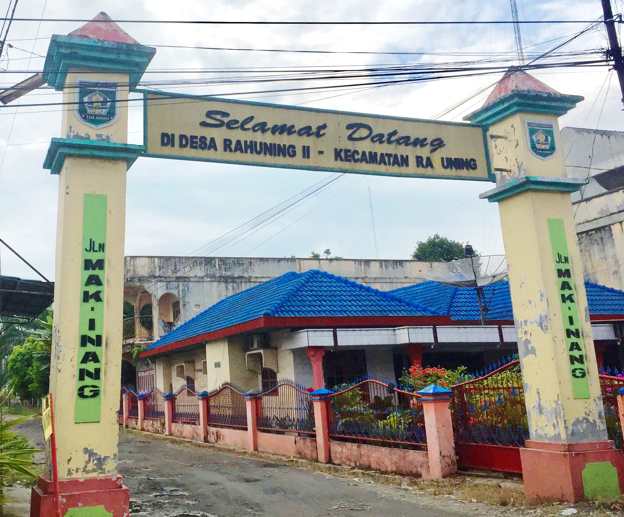 welcome gate to Rahuning II, Rahuning, Asahan